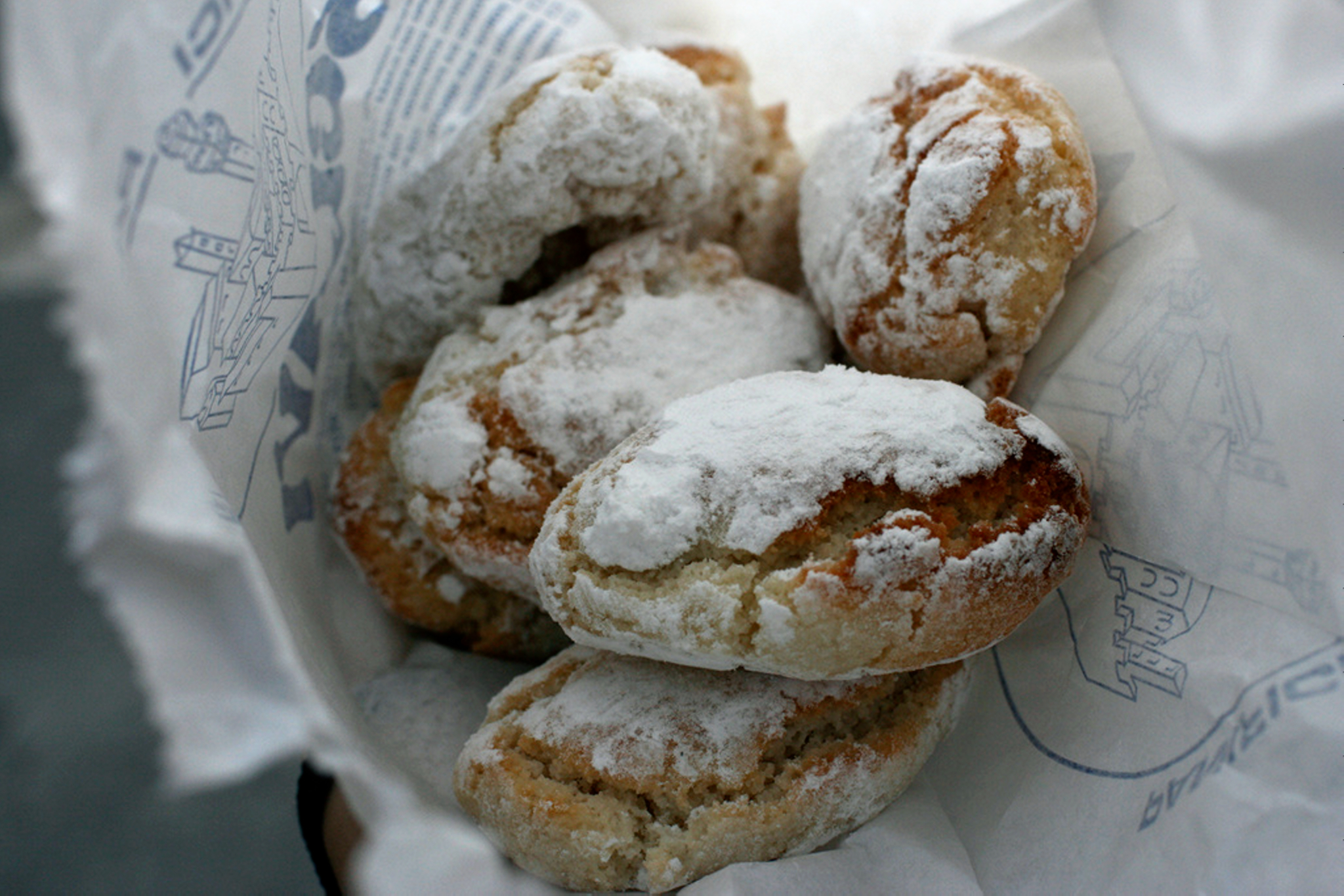 Tuscan almond cookies are tasty